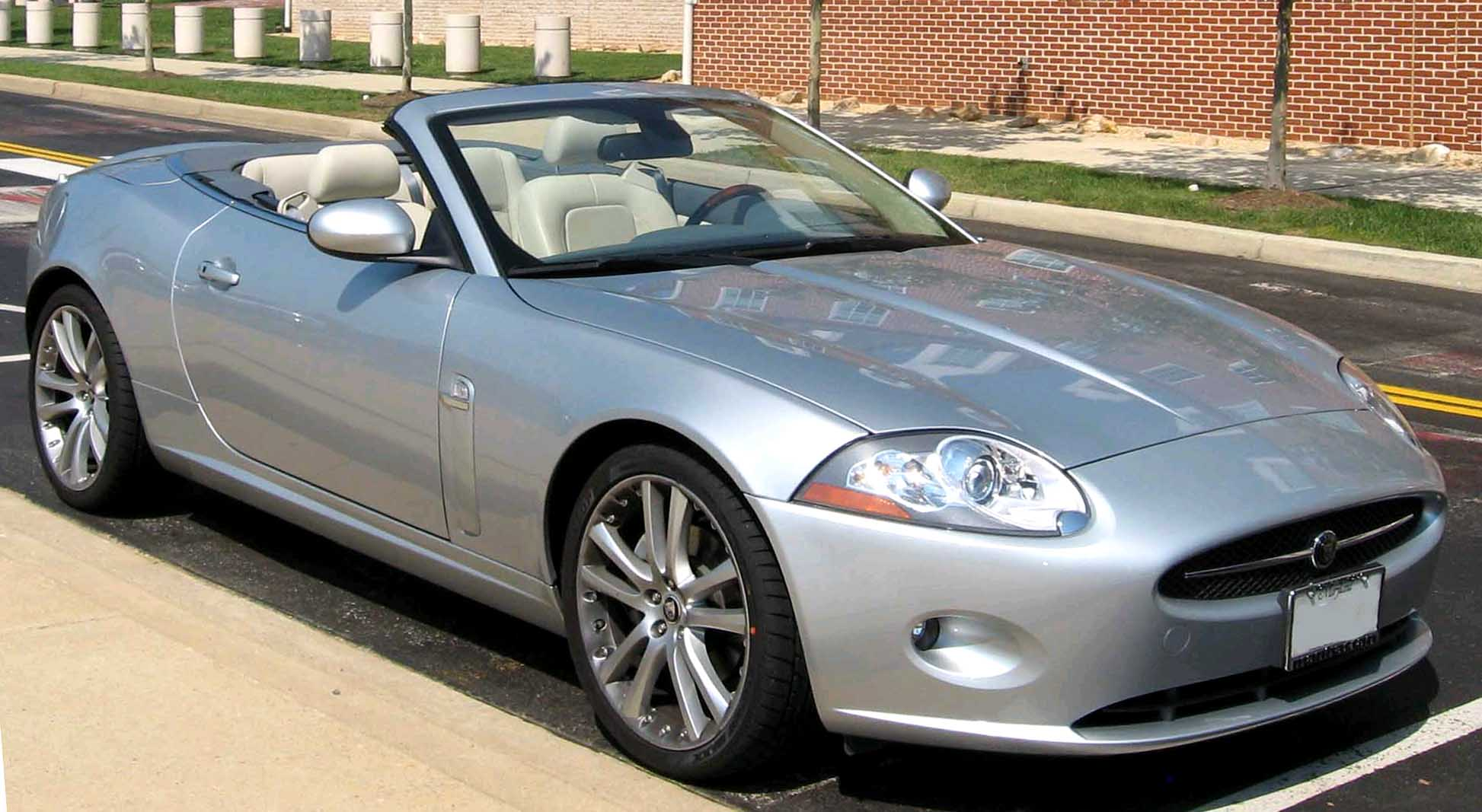 2007 Jaguar XK photographed in USA.